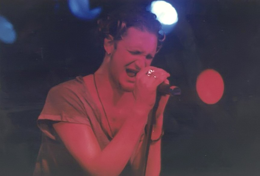 Layne Staley playing with Alice in Chains at The Channel in Boston, MA.